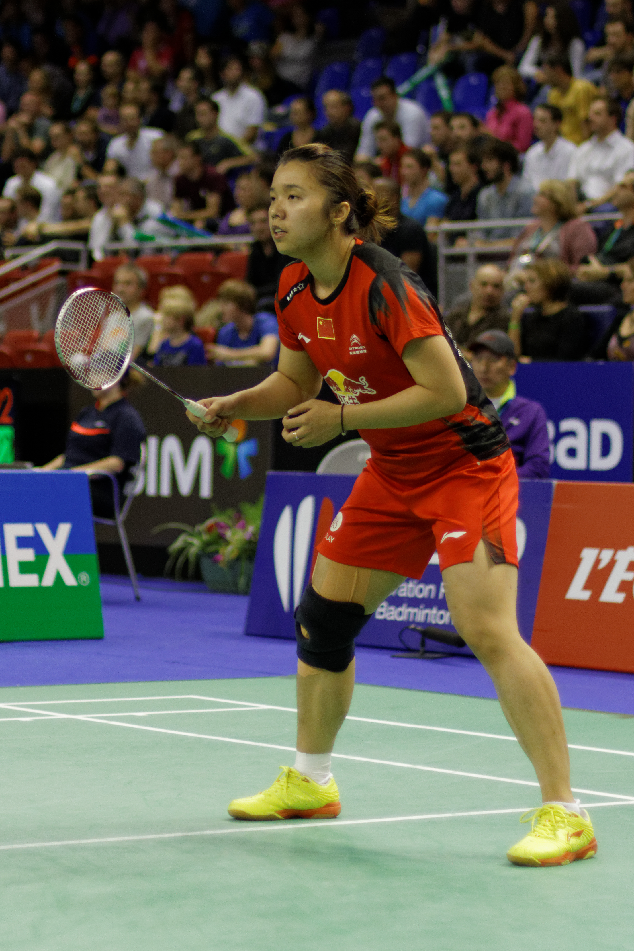 2013 French open. Women's doubles quarterfinal. Tian Qing and Zhao Yunlei vs Misaki Matsutomo and Ayaka Takahashi.